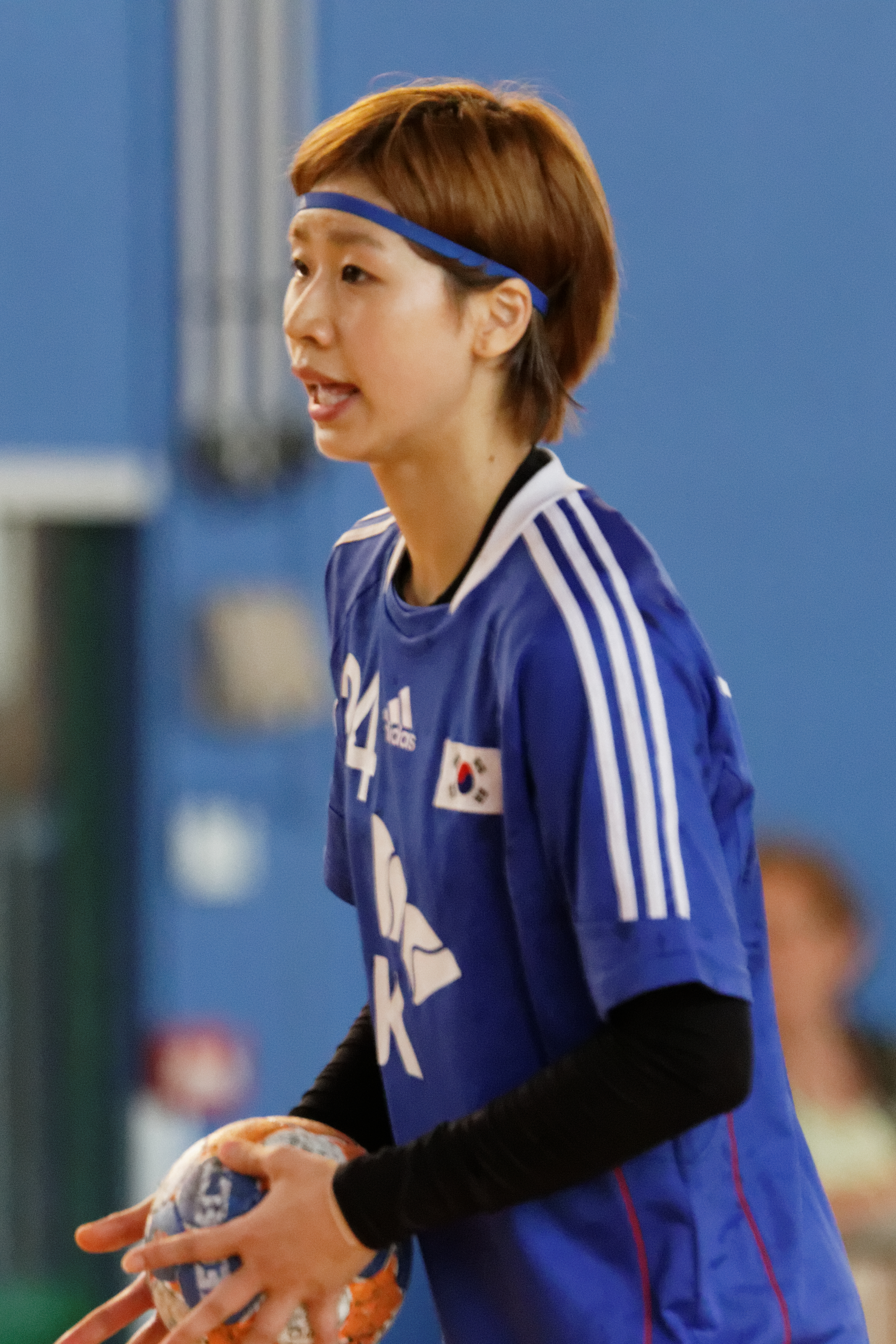 Issy Paris Hand - South Korea, 12 August 2014